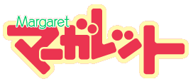 Margaret (マーガレット) logo.